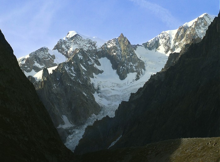 Aiguille de Bionassay (4051 m) Picture taken and edited by user Idefix october 10, 2006